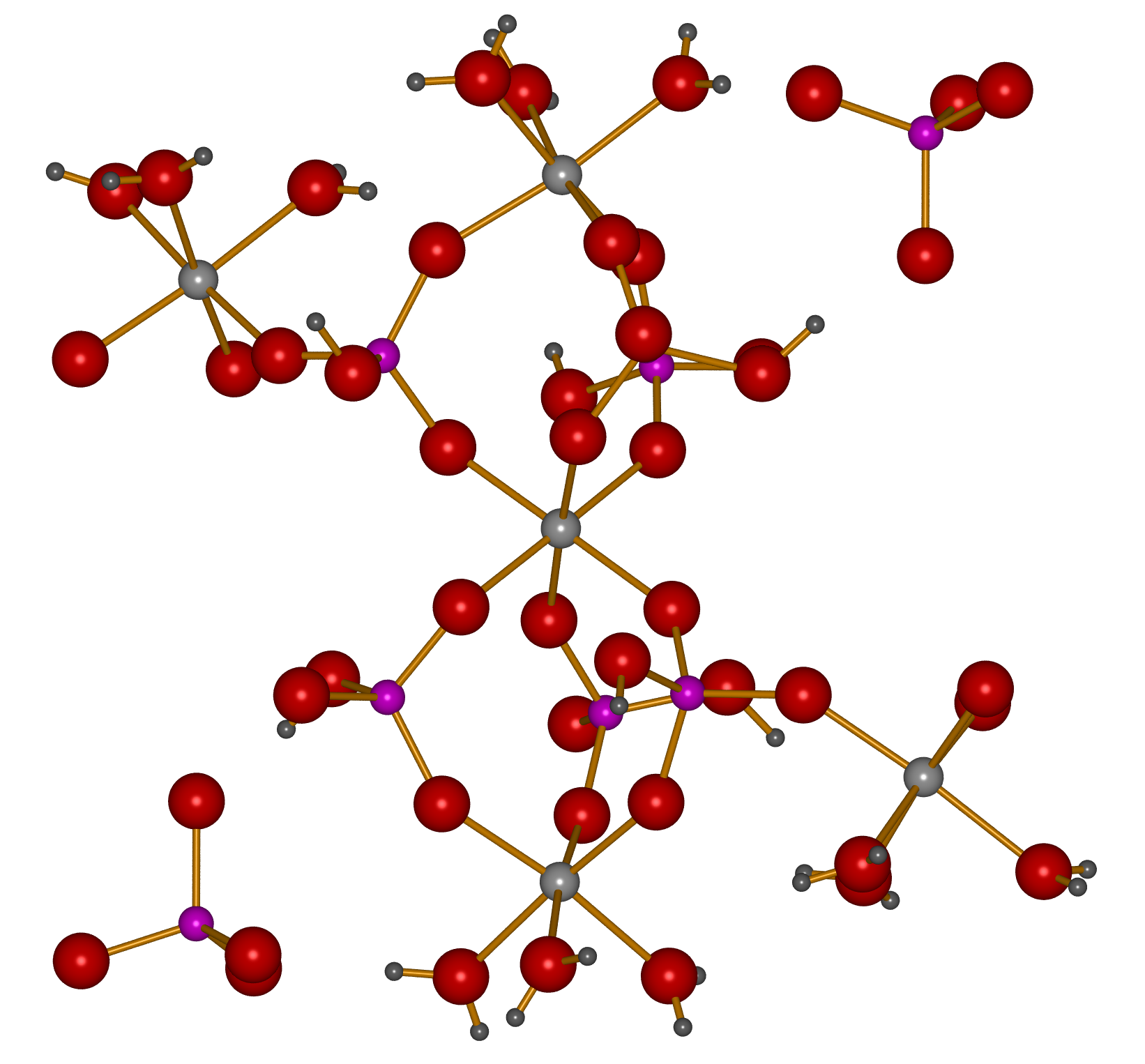 Atomic environment within a layer of the taranakite unit cell, showing three crystallographically distinct aluminum centers linked by HPO42- units. Potassium cations are not shown. Aluminum is shown in grey, phosphorous purple, and oxygen red. Structural parameters taken from (based on S. Dick, U. Goßner, A. Weiß, C. Robl, G. Großmann, G. Ohms, T. Zeiske (1998). "Taranakite — the mineral with the longest crystallographic axis". Inorg. Chim. Acta 269 (1): 47–57)